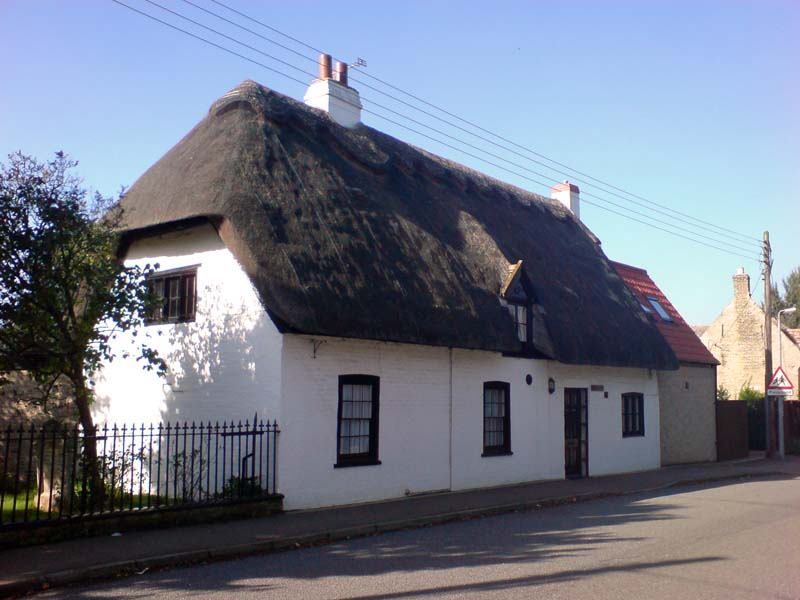 This is beautiful residential cottage, in Little Thetford, Ely, Cambridgeshire.